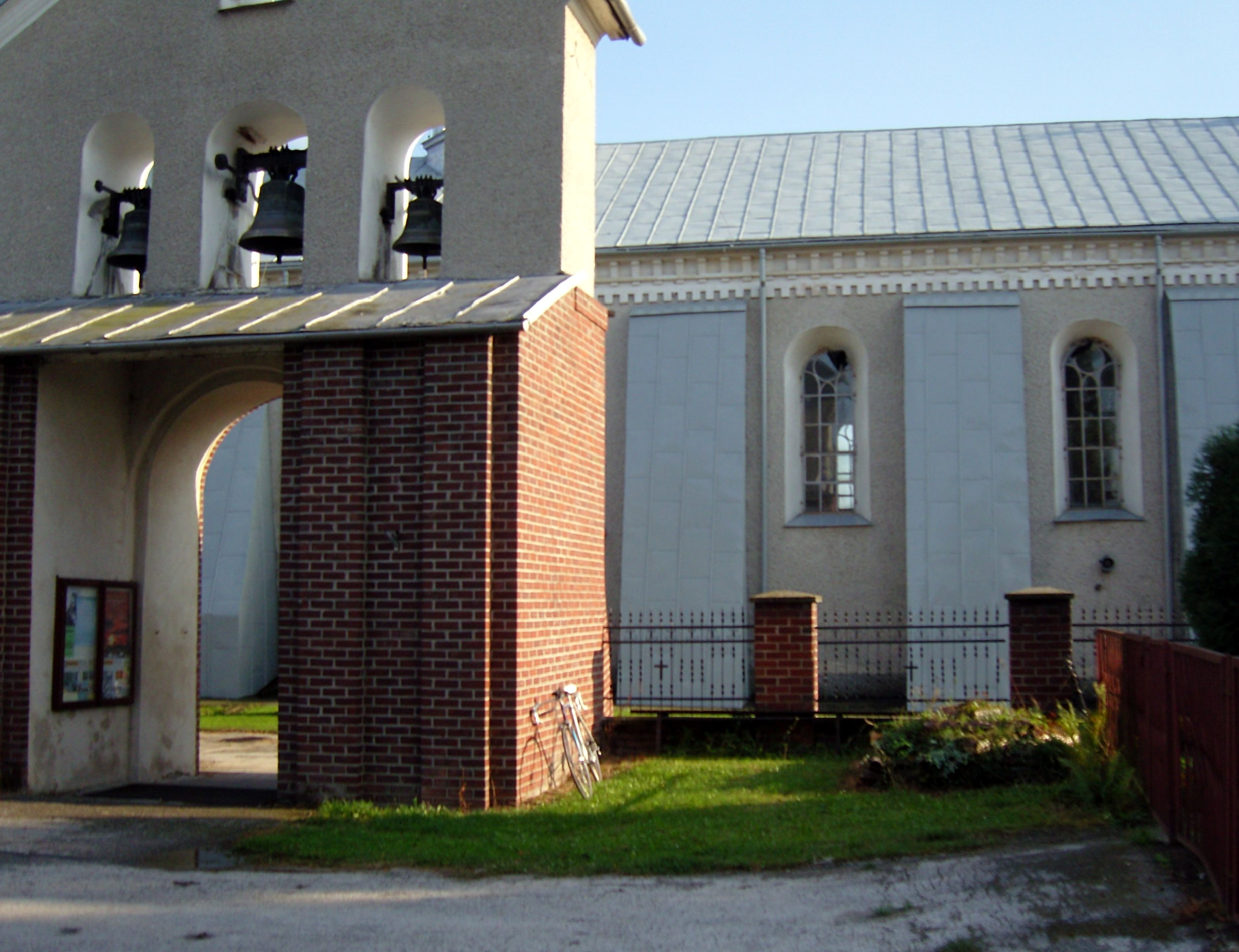 Belfry in Gorzków, Poland